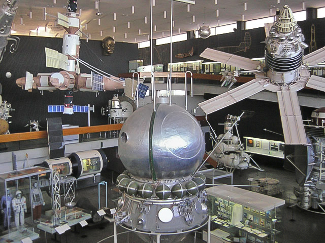 Hall of the Rocket Machinery at Tsiolkovsky State Museum of the History of Cosmonautics in Kaluga